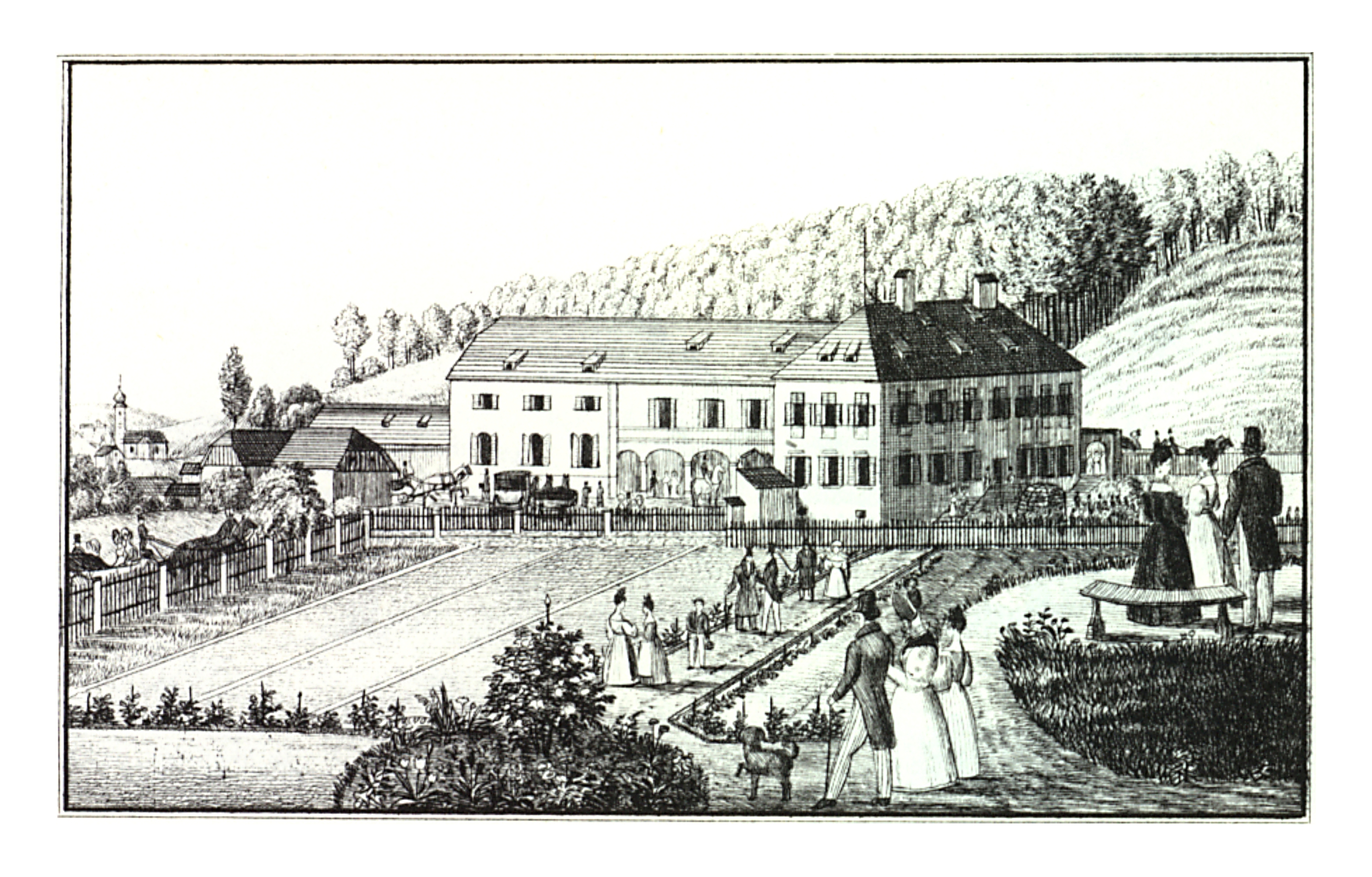 J. F. Kaiser - lithographirte Ansichten der Steyermärkischen Städte, Märkte und Schlösser, Graz 1824-1833 Joseph Franz Kaiser (1786–1859) Alternative names J. F. KaiserDescriptionAustrian printer and editorDate of birth/death 11 March 1786 19 September 1859Location of birth/death Graz (Styria) GrazAuthority control : Q1499963 VIAF: 30629353 ISNI: 0000 0000 3083 0153 LCCN: n87141671 GND: 129880159 NLP: A24960305 WorldCat creator QS:P170,Q1499963 . Scanprojekt Community Projektbudget 2012 This scan or this PDF-file was created within the GLAM-project Bookscanning, supported by Wikimedia Germany and Wikimedia Austria as a part of the community-project to capture books, documents and pictures which are not eligible to copyright or for which the copyright has expired. This document describes or depicts an object which is located in Austria today. Send requests for uncompressed scans to Hubertl. This work is in the public domain in its country of origin and other countries and areas where the copyright term is the author's life plus 100 years or less. You must also include a United States public domain tag to indicate why this work is in the public domain in the United States. This file has been identified as being free of known restrictions under copyright law, including all related and neighboring rights.